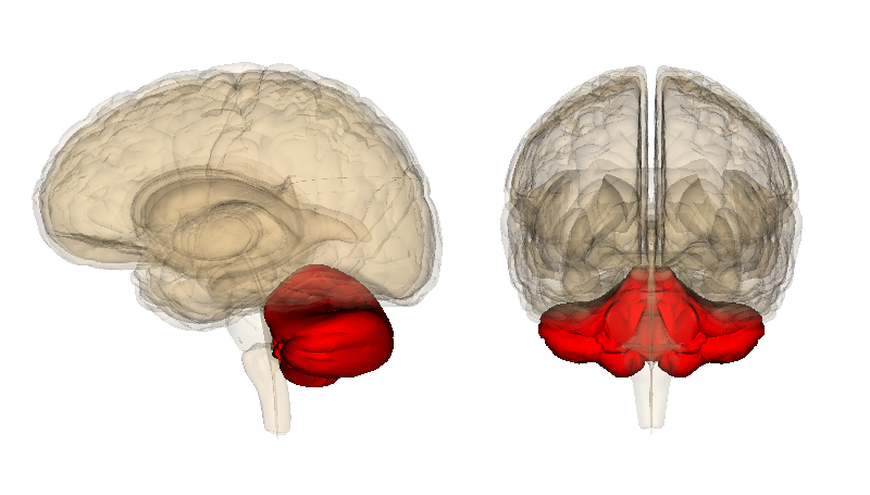 cerebellum. Images are from Anatomography maintained by Life Science Databases(LSDB).